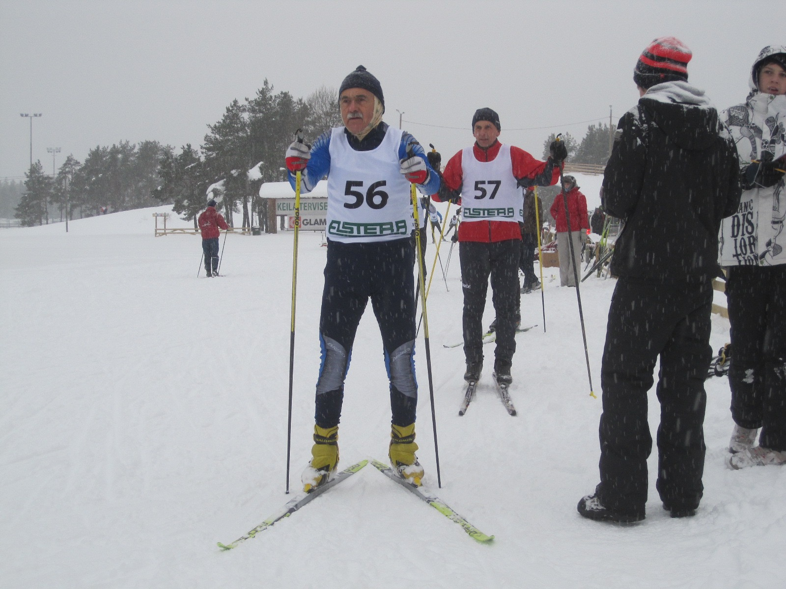 In the skiing race start.